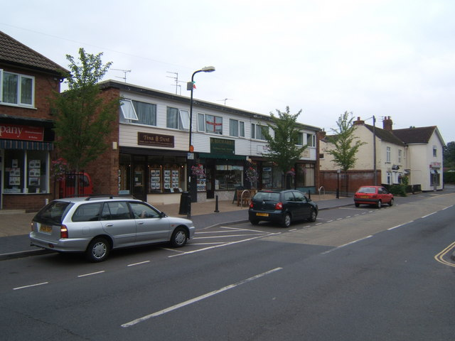 Albrighton. Local shops in Albrighton. The butchers has won many awards for the quality of their produce.